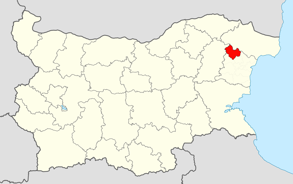 Location map of Valchi Dol Municipality within Varna Province, Bulgaria. Equirectangular projection, N/S stretching 130 %. Geographic limits of the map: N: 44.4° N S: 41.1° N W: 22.1° E E: 28.9° E